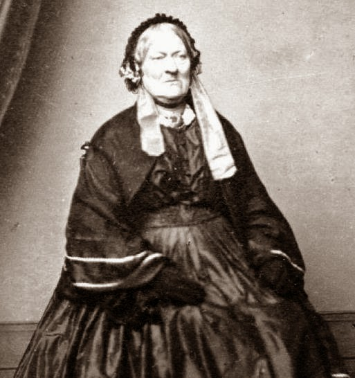 Lilly Maxwell or Lily Maxwell (c.1800 – 1876) was a British Scottish suffragist who was said to be the first woman to vote by campaigning suffragists in Manchester. pic c. 1867